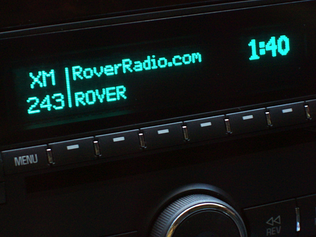 Tape delay broadcast of Rover's Morning Glory airing on Extreme Talk (XM channel 243) -- program service data text displayed on car radio